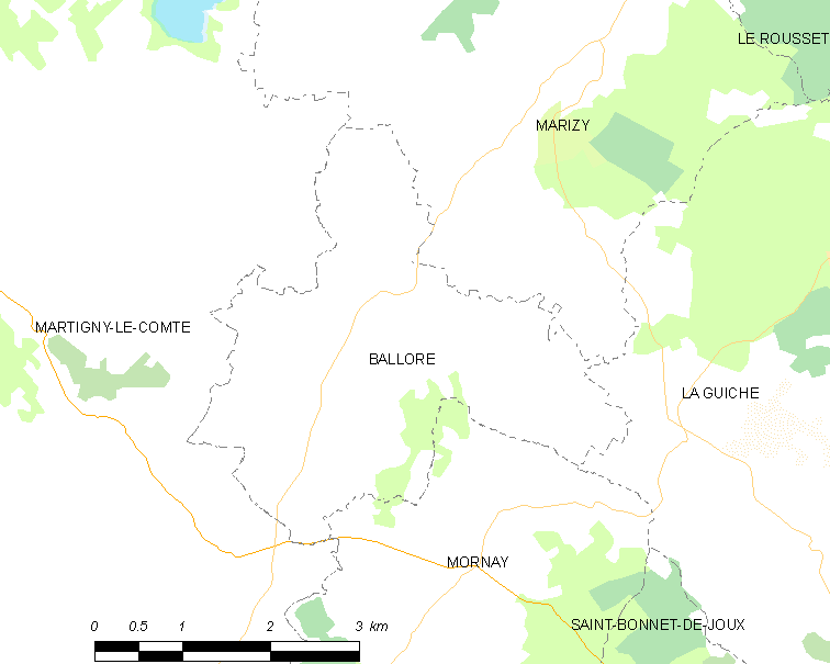 Map of French municipality